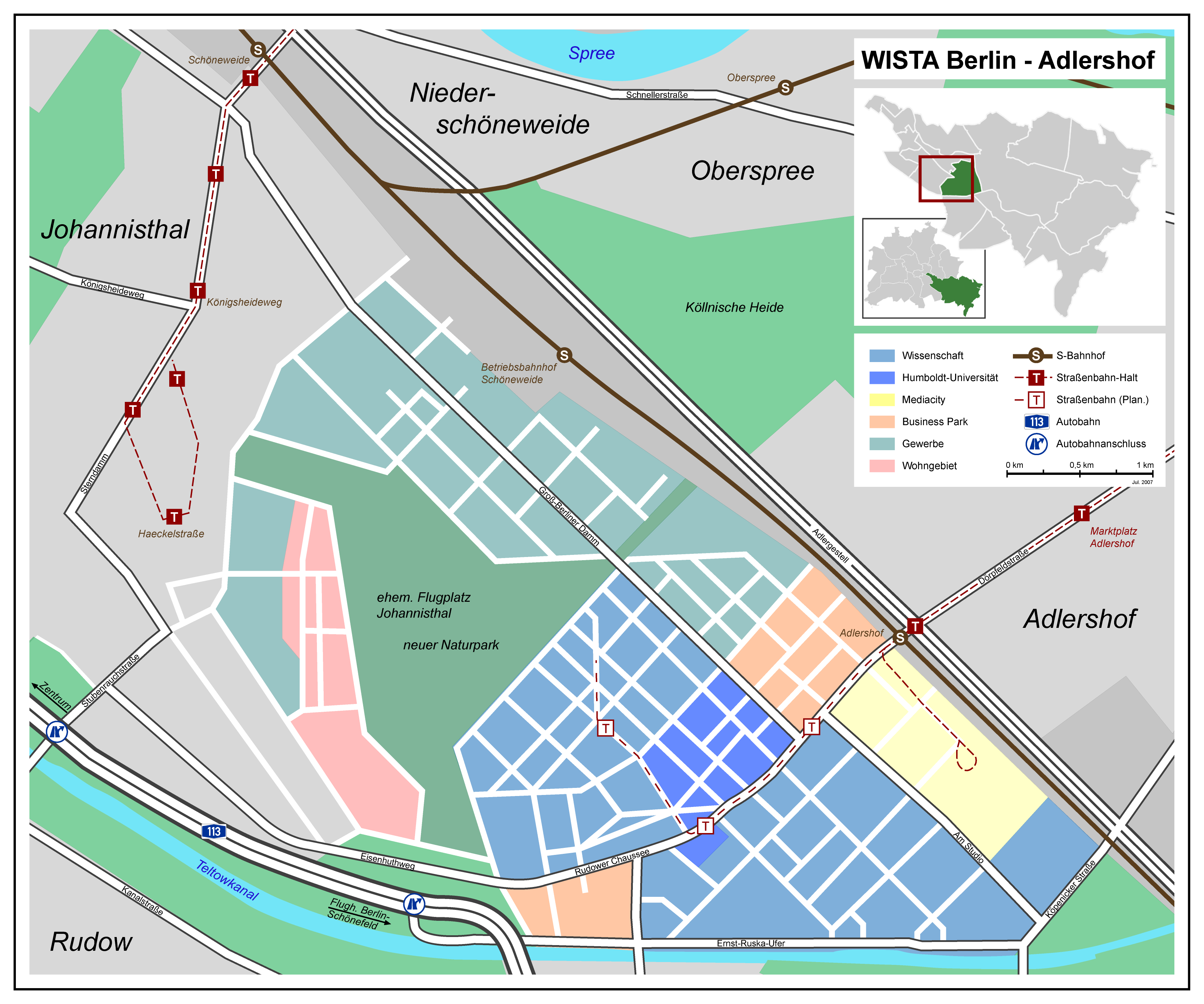 Map of Scientific City "Wista", Berlin - Adlershof